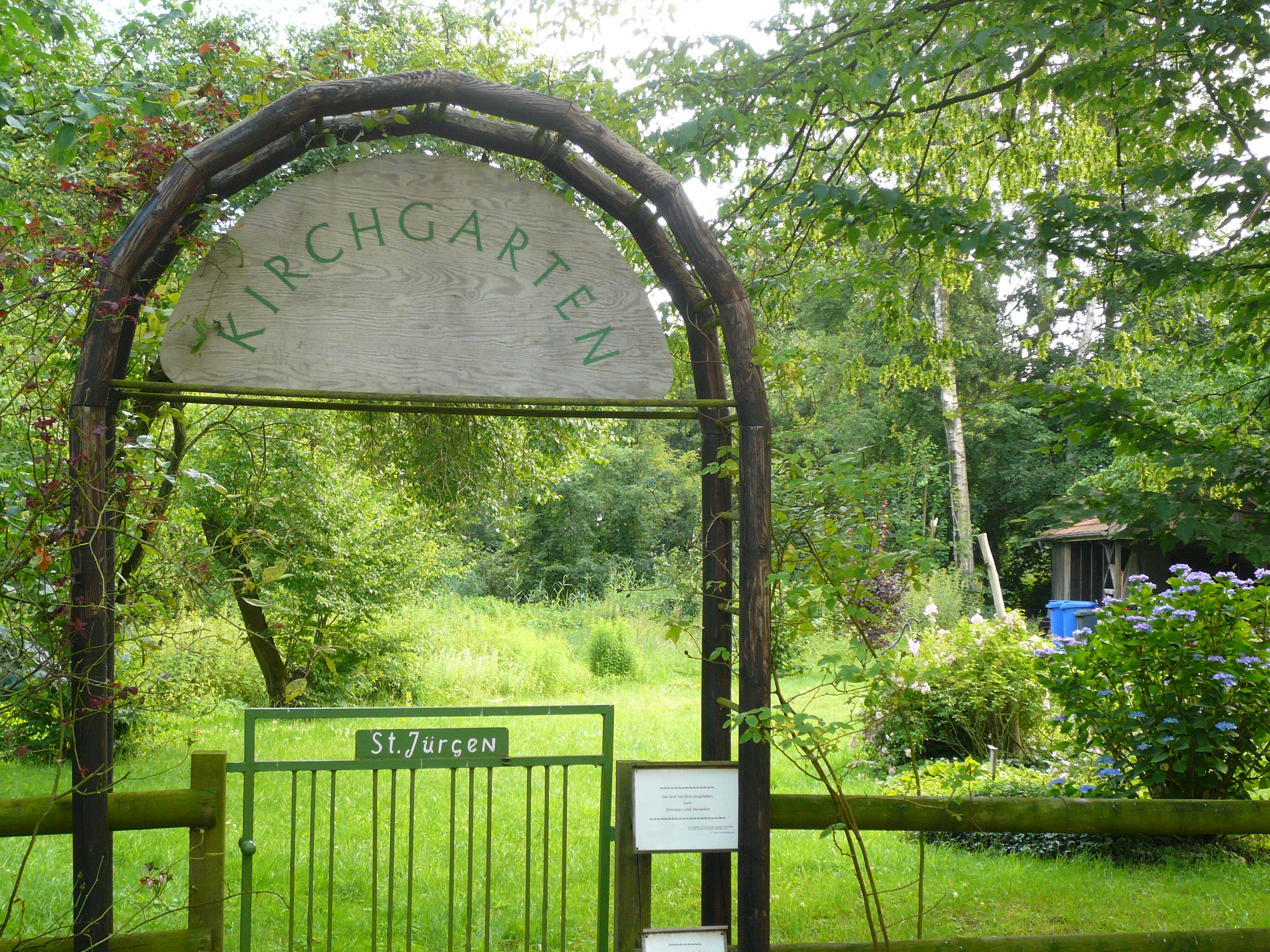 The parishes garden of the church of St. Jürgen in Lower Saxony